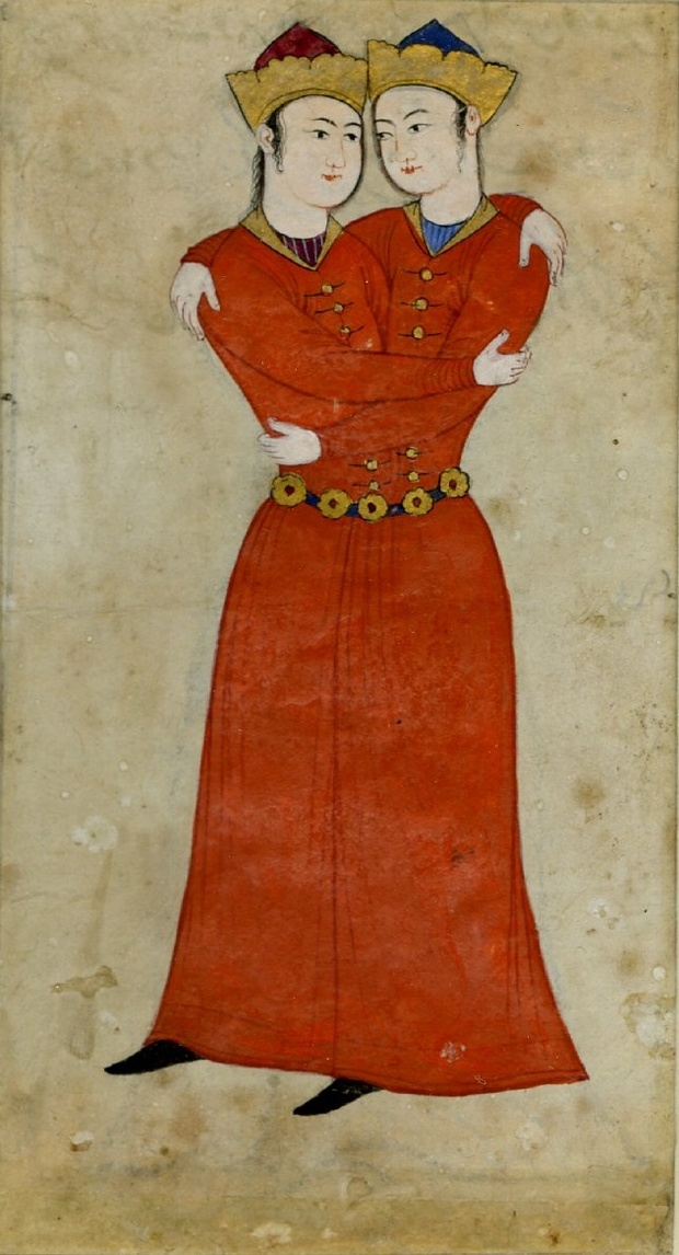 Entwined Geminis, Safavid Dynasty. Persia/Iran 1630-1640 C.E. opaque watercolour and ink on paper. The twin Geminis’ share the same body and stare into each others eyes.